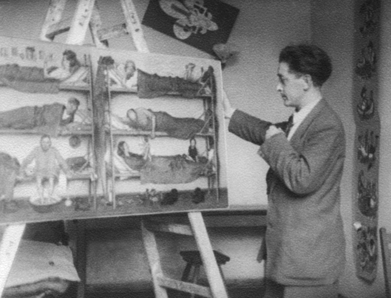 Jacques Hnizdovsky with his painting "Displaced Persons", oil, 1948, presently in the collection of the Ukrainian Museum, New York